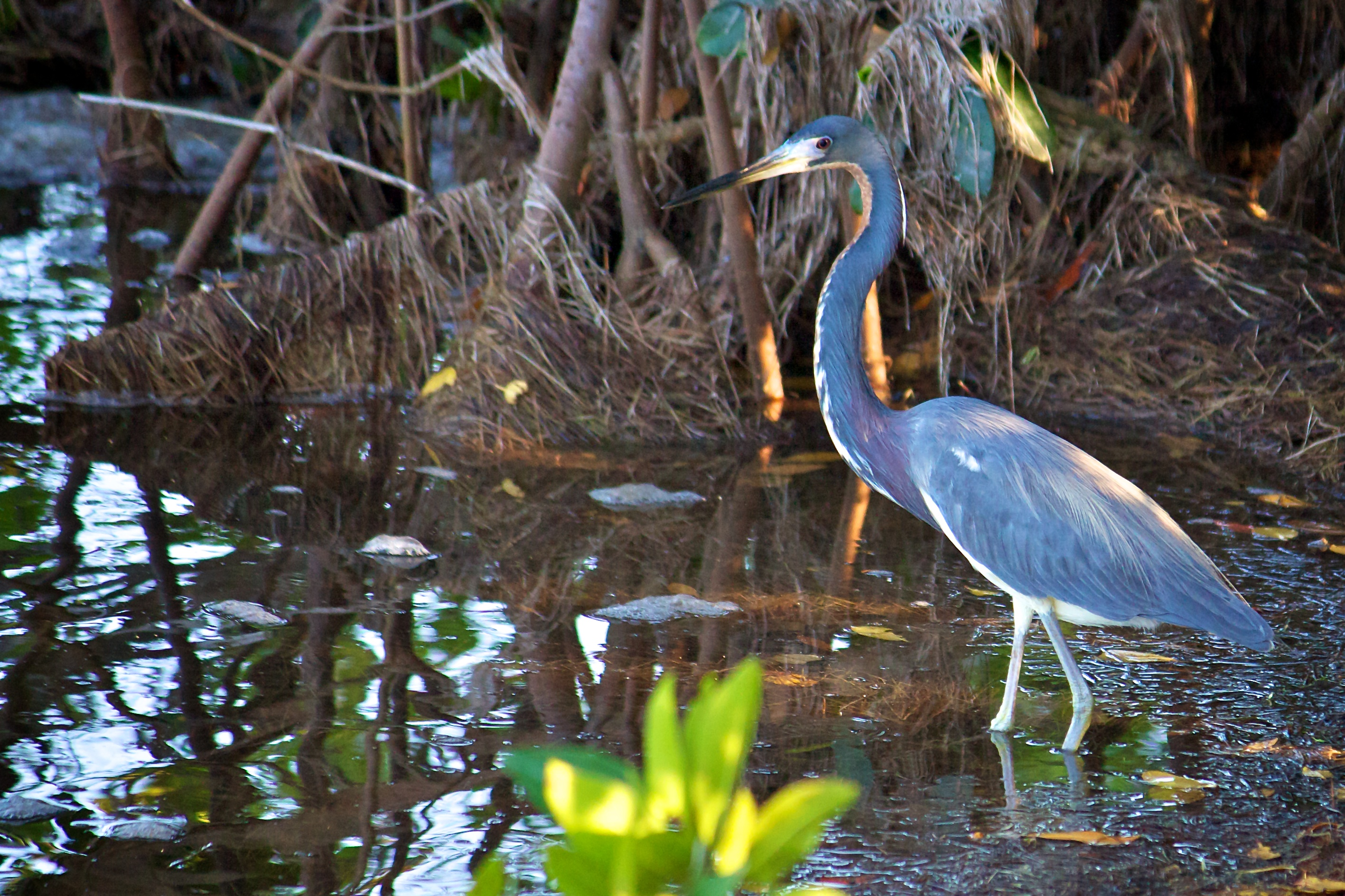 Tricolored Heron (Egretta tricolor) at J.N. “Ding” Darling NWR Credit: USFWS Photographer: Keenan Adams